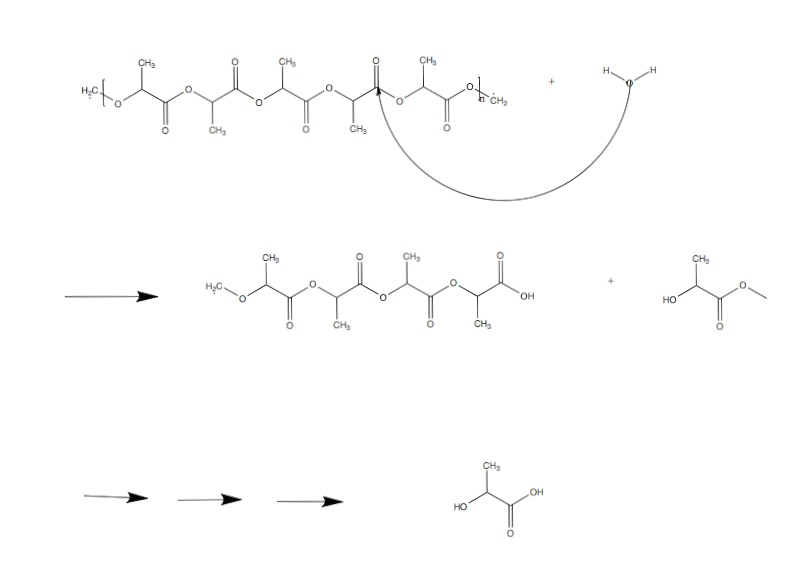 Hydrolytic Degradation of the aliphatic polyester, PLA.